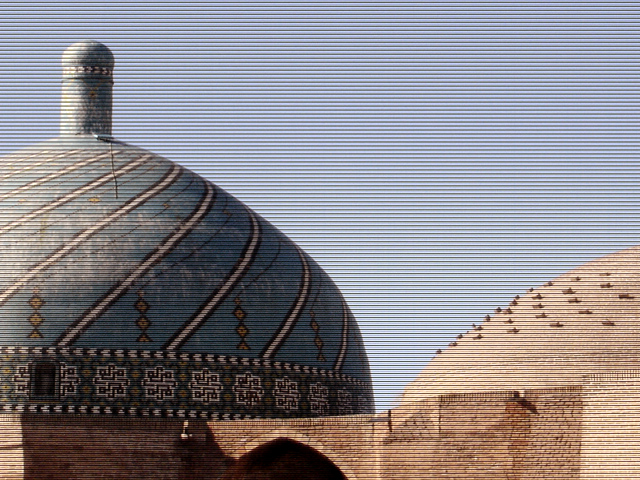 Jame Mosque of Qazvin. 9th century. Iran